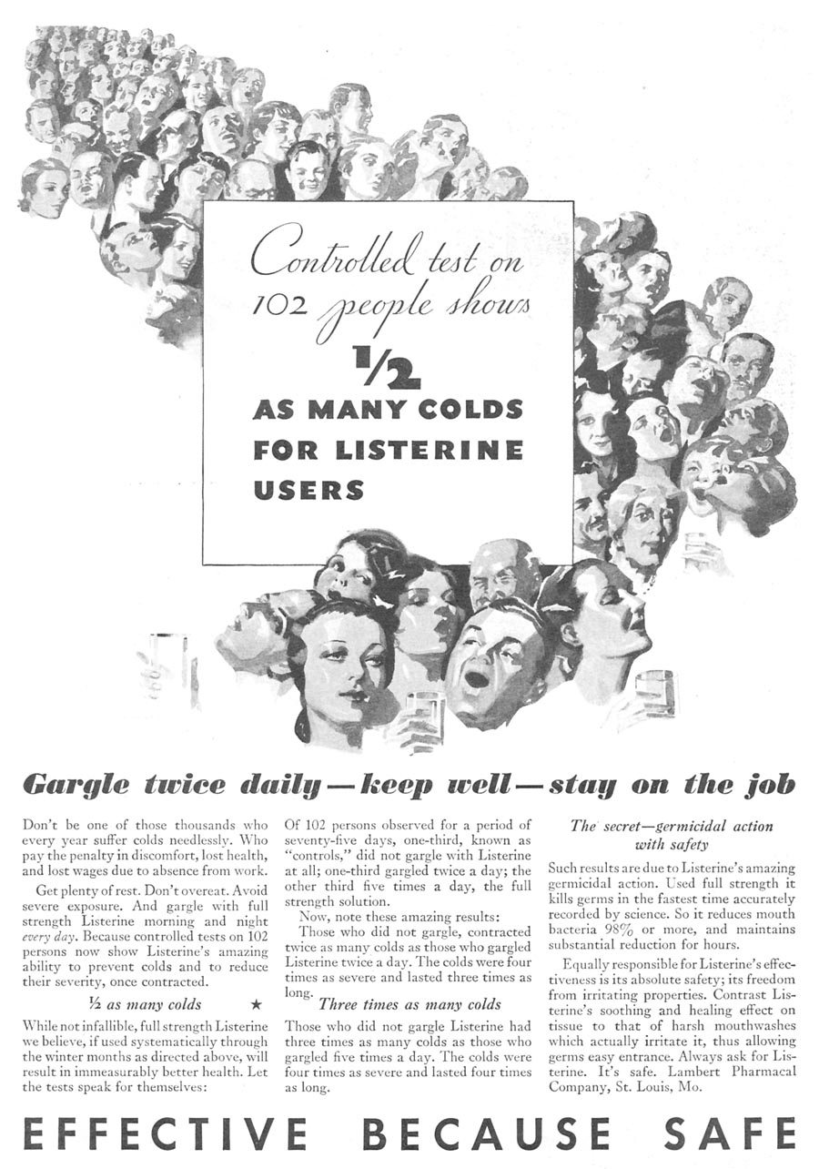 1932 advertisement for Listerine mouthwash from Lambert Pharmaceutical Co.. From 1921 until the mid-1970s, Listerine was also marketed as preventive and remedy for colds and sore throats. In 1976, the Federal Trade Commission ruled that these claims were misleading, and that Listerine had "no efficacy" at either preventing or alleviating the symptoms of sore throats and colds. Warner-Lambert was ordered to stop making the claims, and to include in the next $10.2 million dollars' of Listerine ads specific mention that "contrary to prior advertising, Listerine will not help prevent colds or sore throats or lessen their severity."[1] Out of the magazine Good Housekeeping.